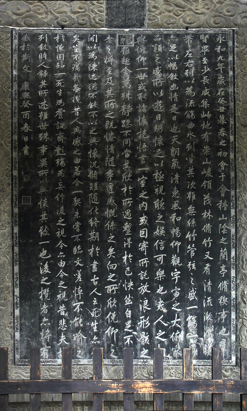 Preface to Lanting tablet caligraphed by Emperor Kangxi